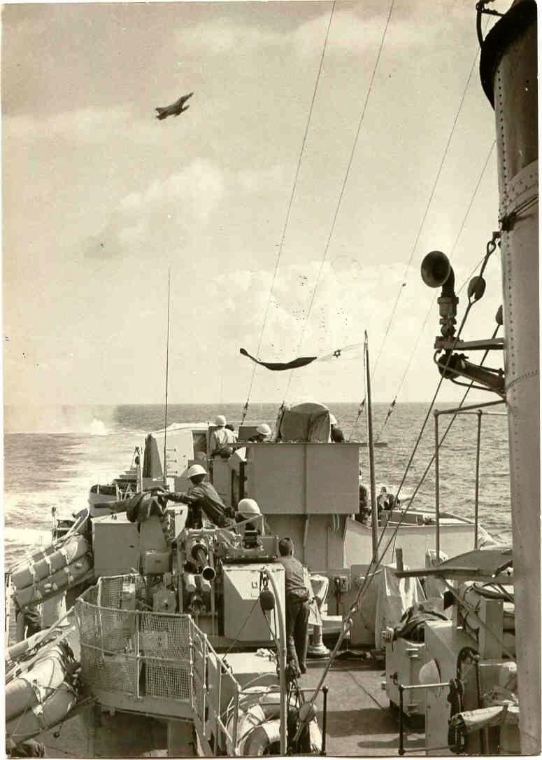 INS Haifa Ex Ibrahim El-Awal depth charging an Egyptian submarine off the Israeli coast